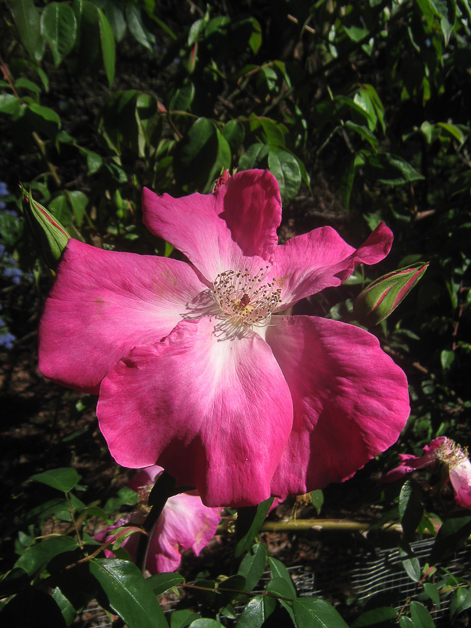 Rose 'Flying Colours', Hybrid Gigantea by Alister Clark 1922; photographed in the Alister Clark Memorial Rose Garden at Bulla, Victoria